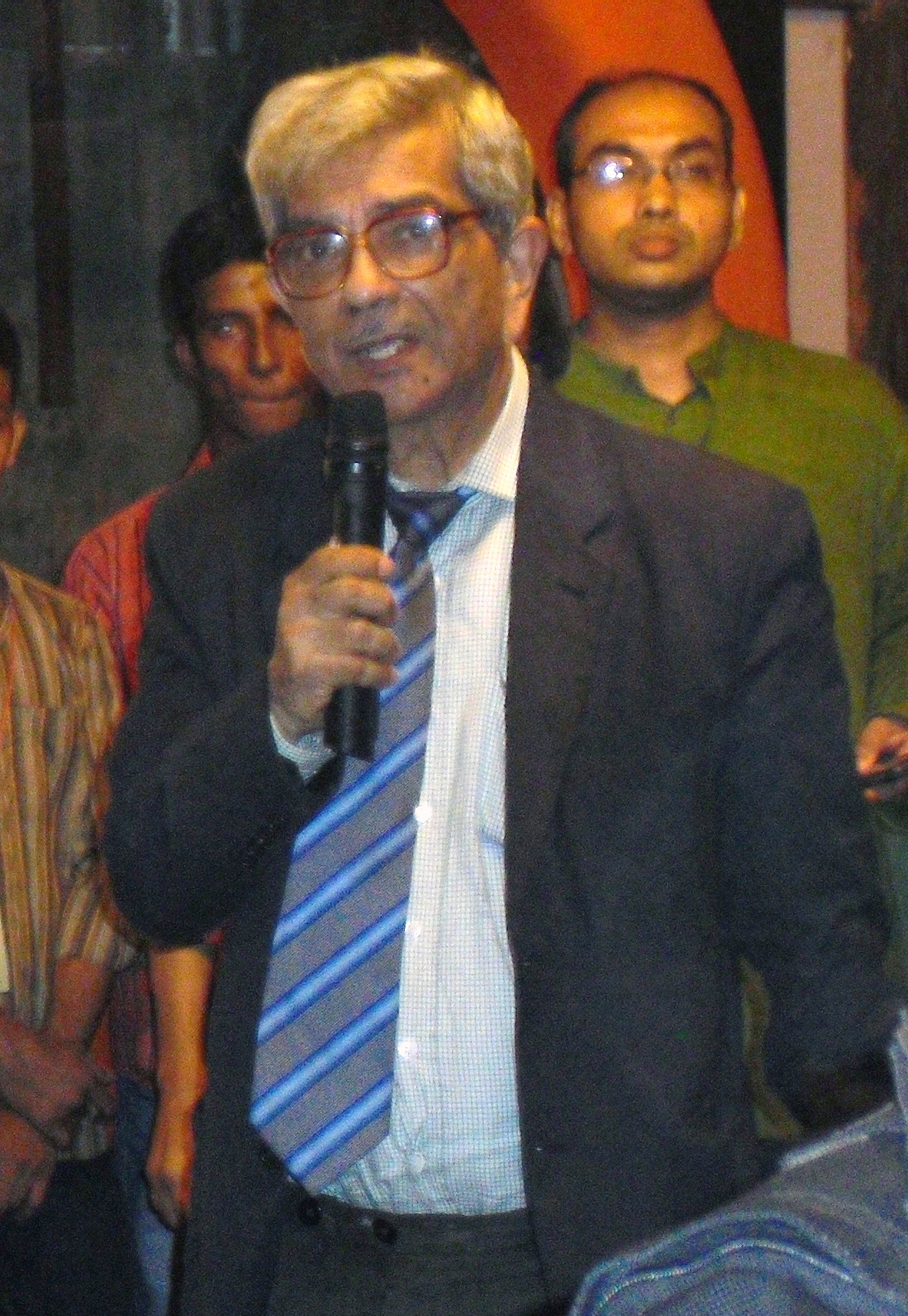 derivative of File:Jamal Nazrul Islam addressing in inaugural ceremony of bookstall Baatighar.JPG